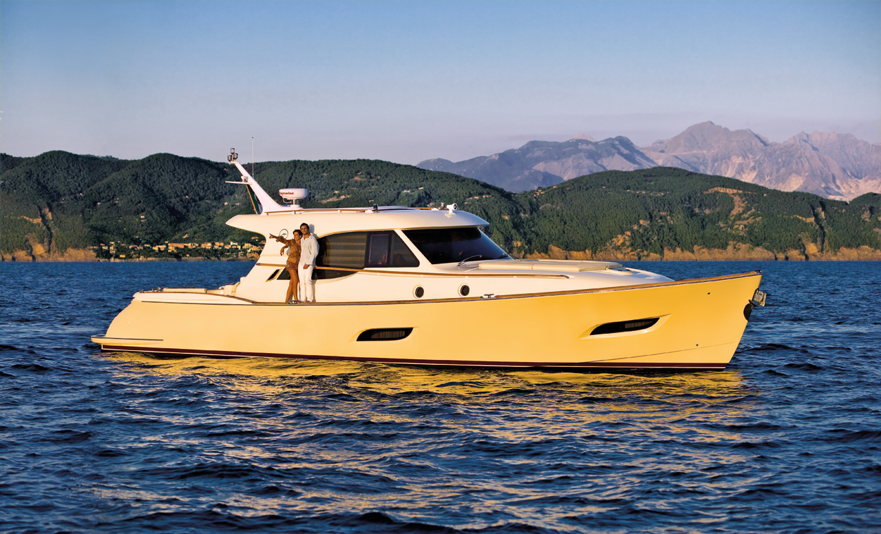 A Mochi Craft yacht, Dolphin 54' suntop